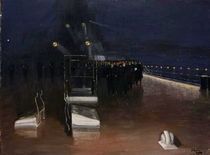 The Arrival of the German Delegates : "HMS Queen Elizabeth", 15th November 1918. Night.